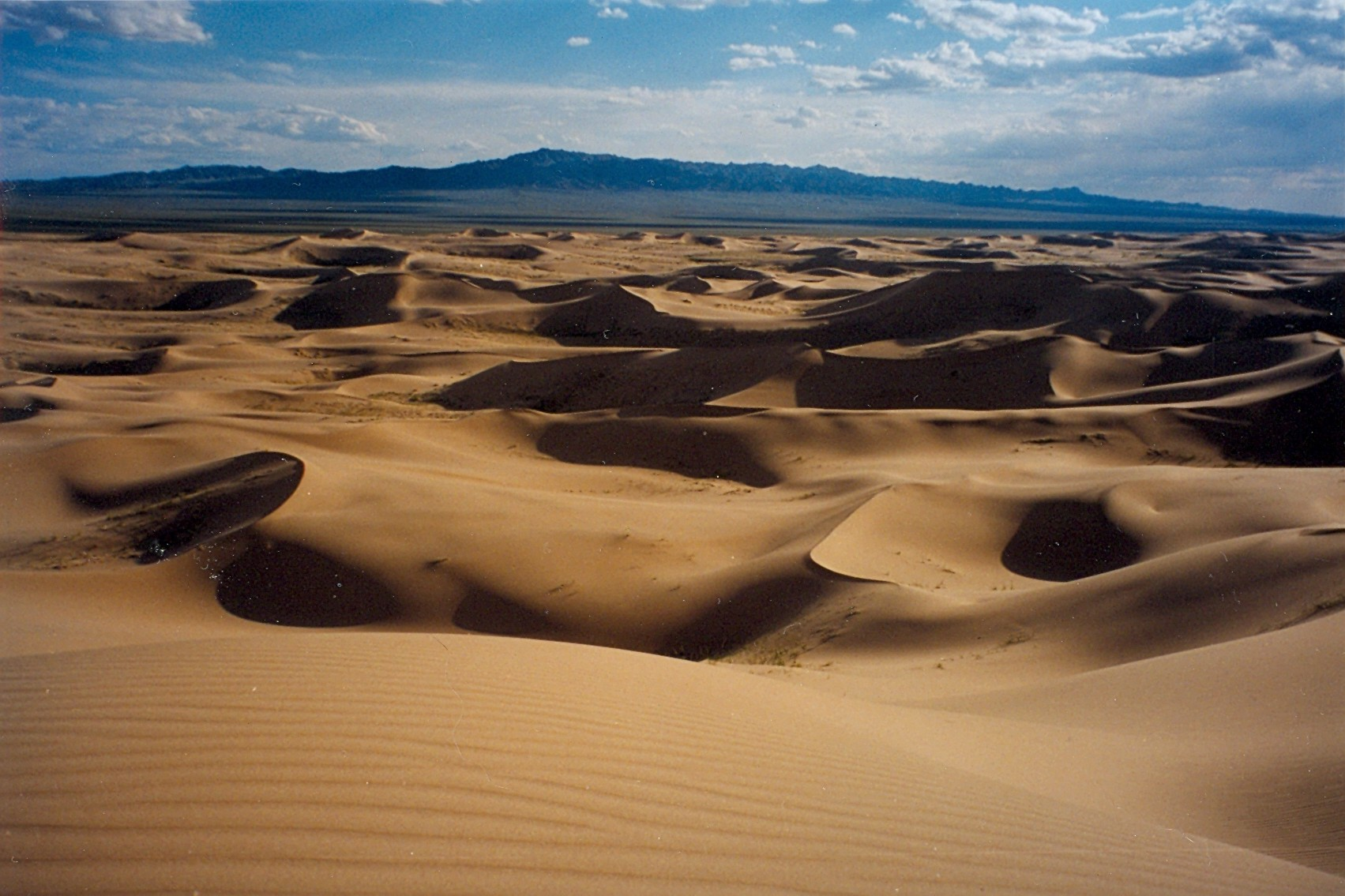 Sand dunes of Khongoryn Els, Gobi Gurvansaikhan National Park, Ömnögovi Province, Mongolia.